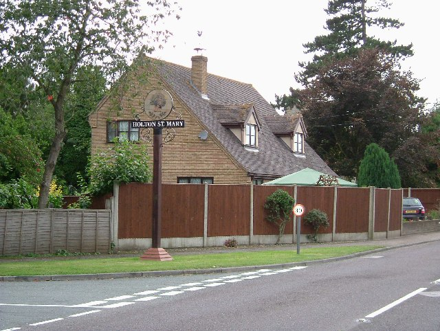 Holton's Sign. The village sign in Holton St Mary. In the background a modern house in vernacular style